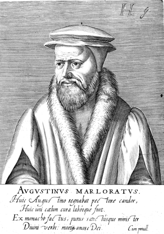 Augustin Marlorat, French Protestant reformer (1508?-1562)